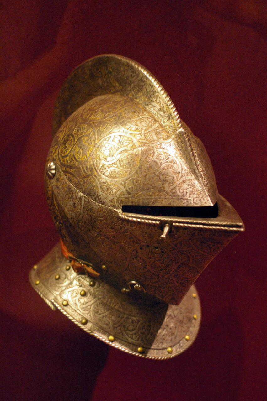 Claude Gouffier's helmet